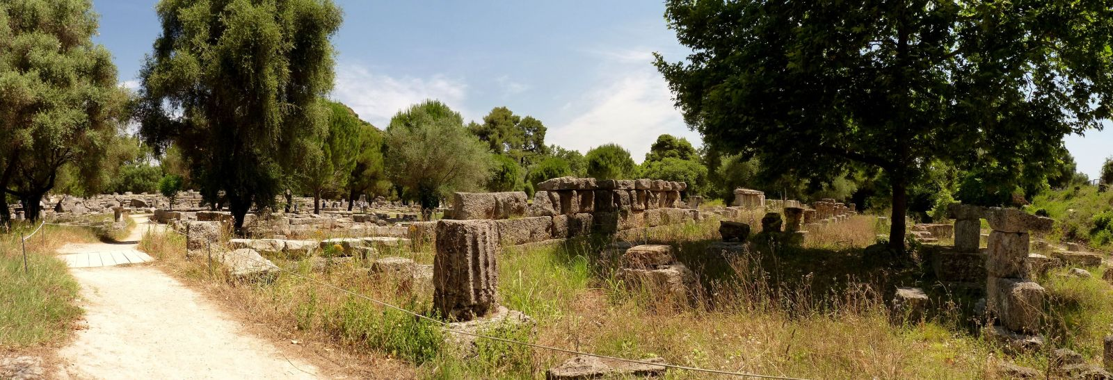 Stoa South, Olympia.